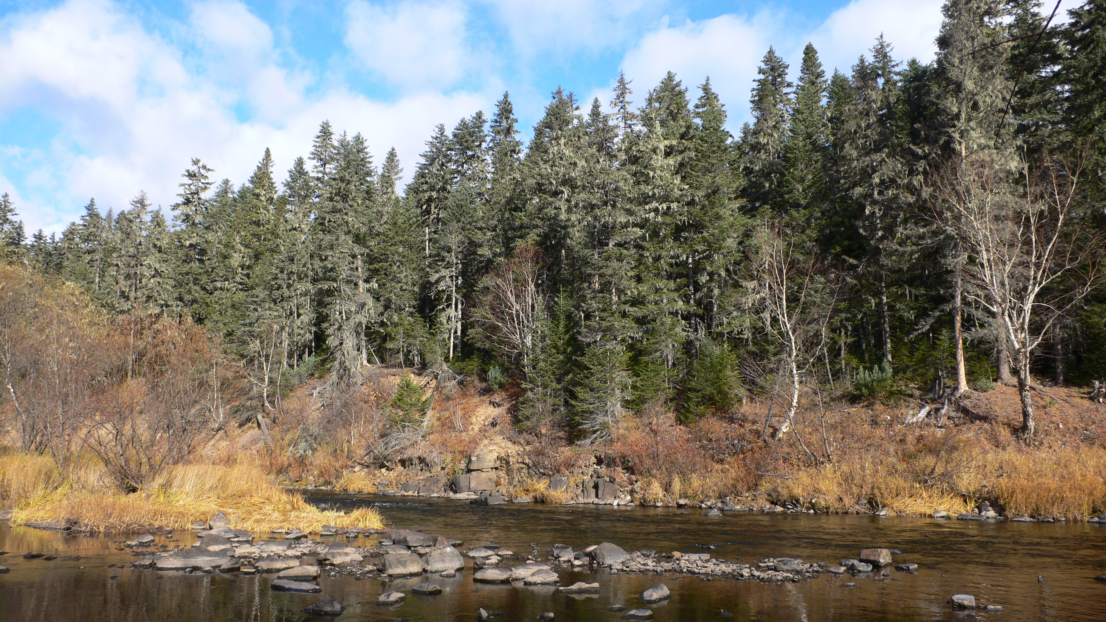 Bikin River, with mixed Abies nephrolepis - Picea jezoensis forest